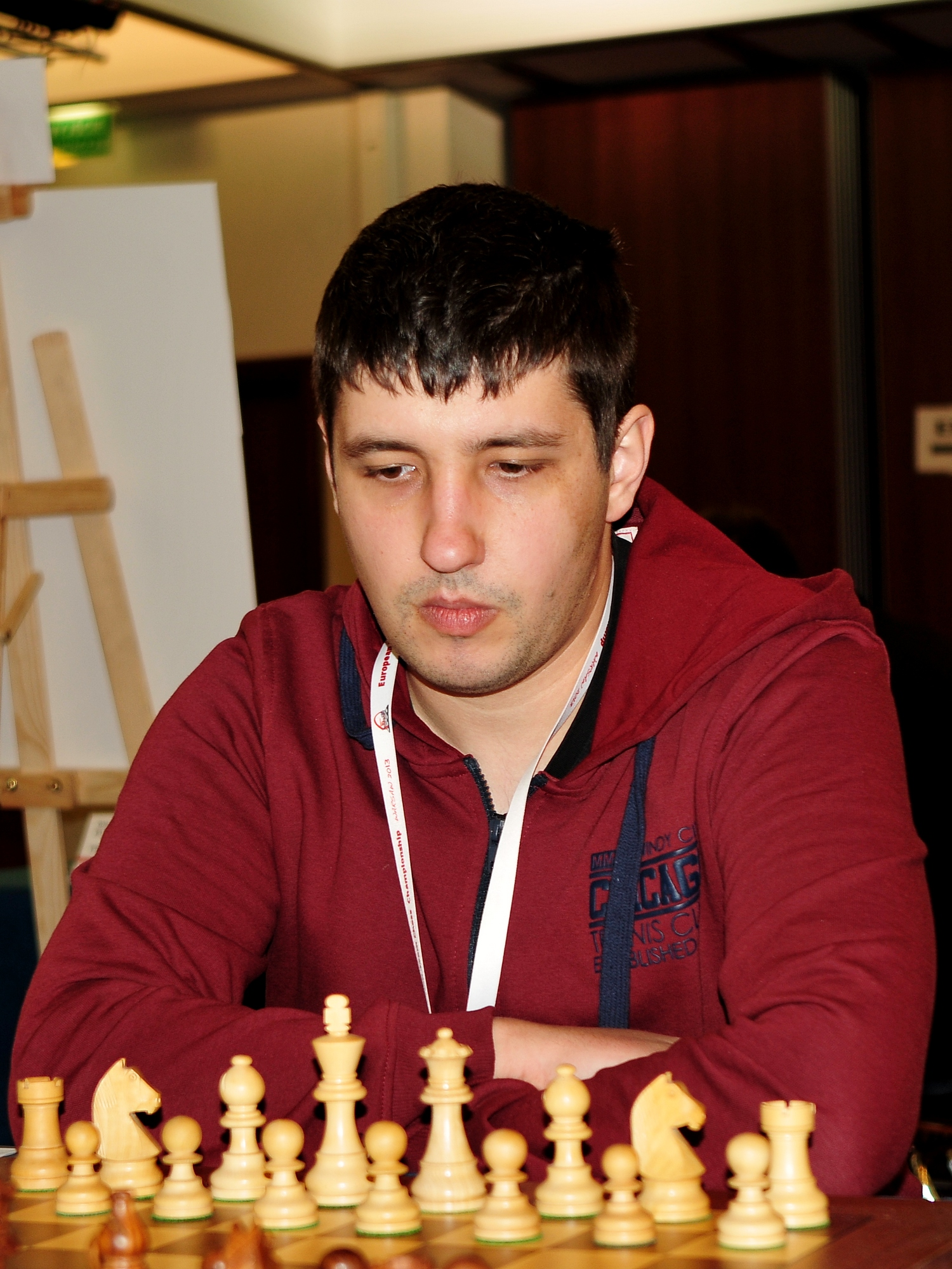 GM Constantin Lupulescu, European Chess Team Championship Warsaw 2013